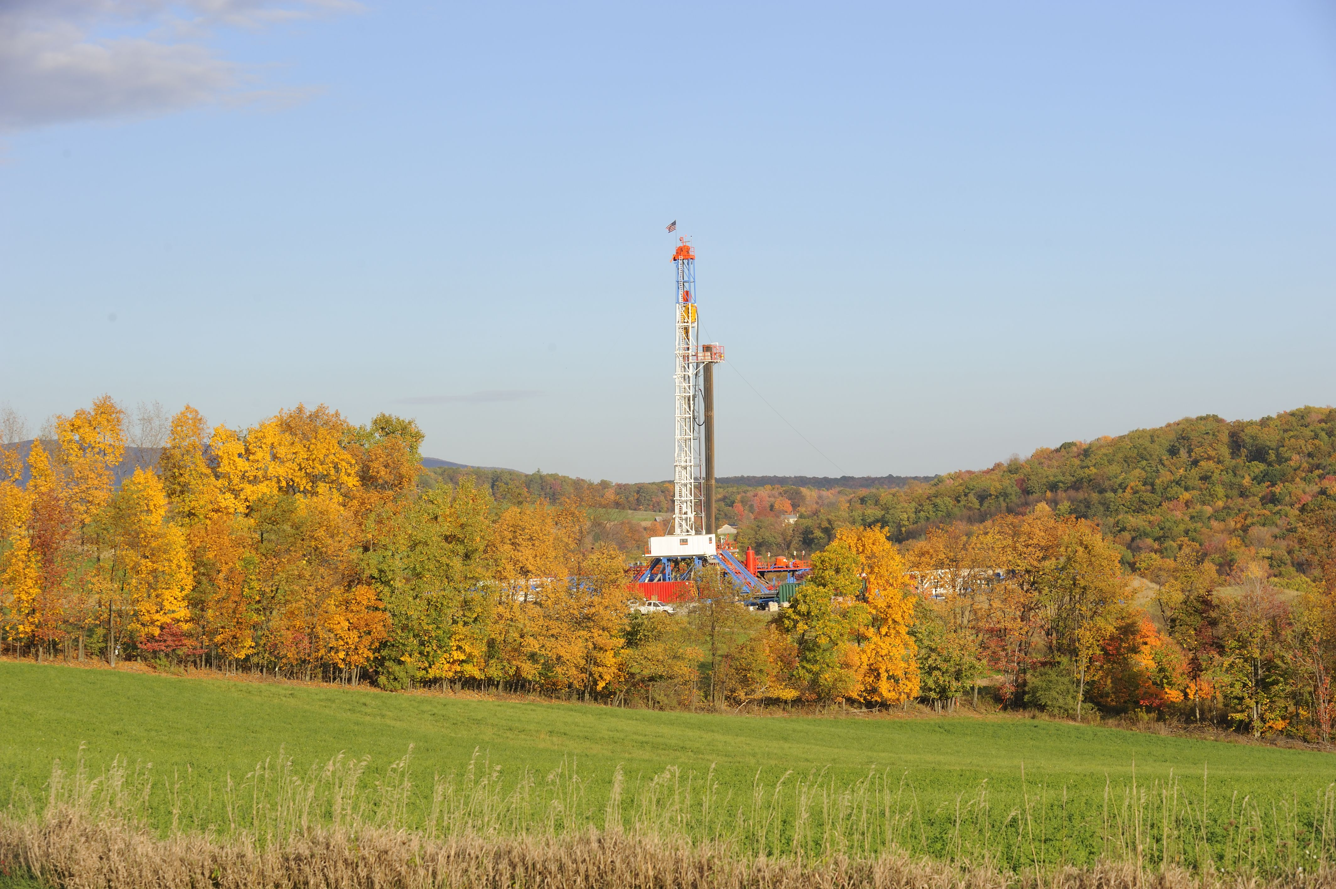 Chief Oil & Gas